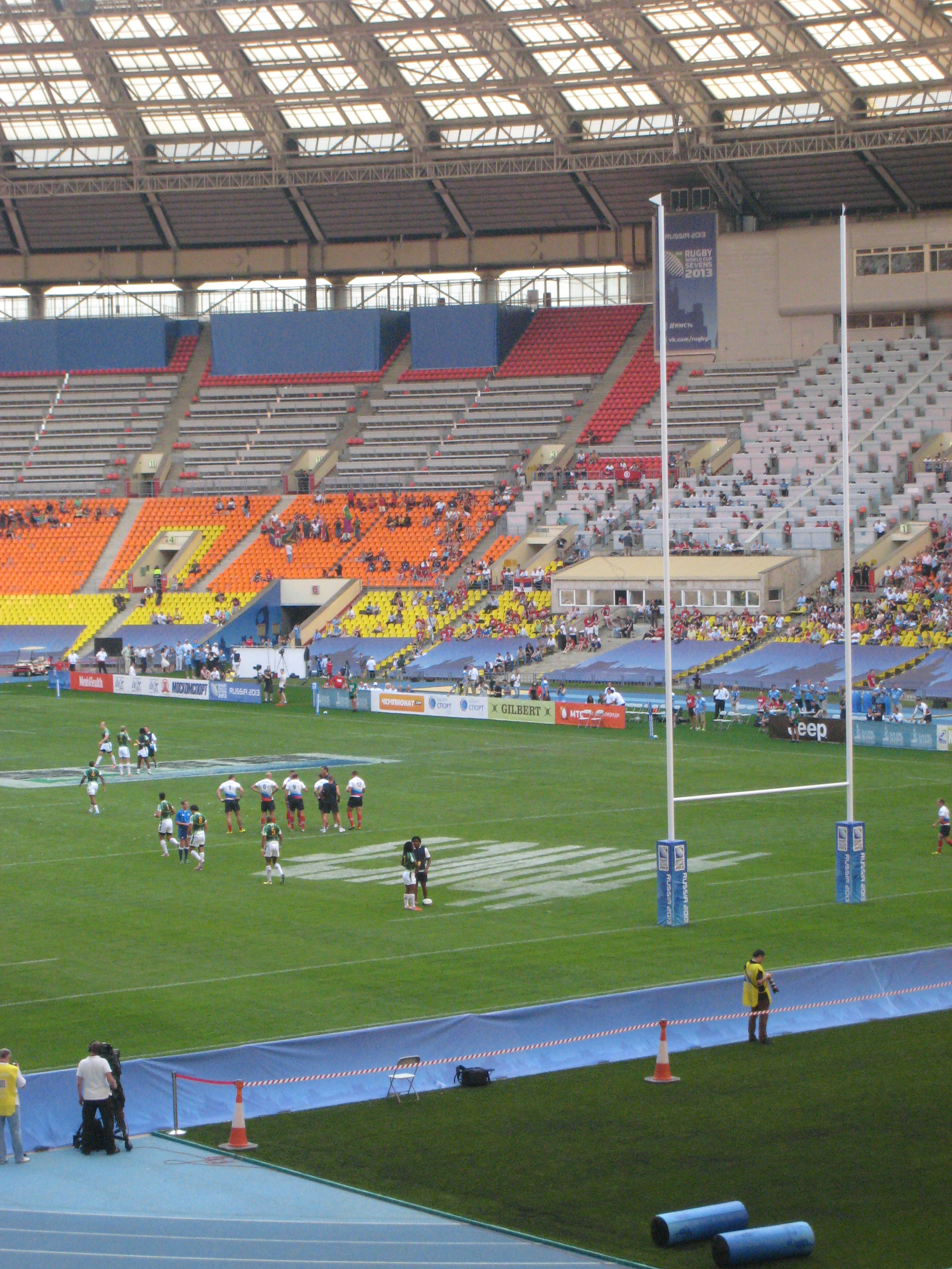 First Day of the 2013 Rugby World Cup Sevens in Moscow